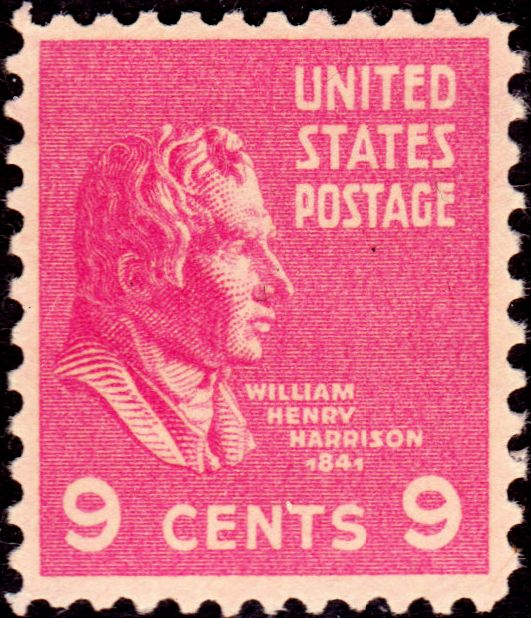 US Postage stamp: William H. Harrison, Issue of 1938, 9c